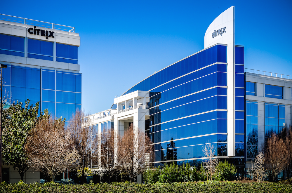 Exterior of the Citrix Systems headquarters in Santa Clara, California